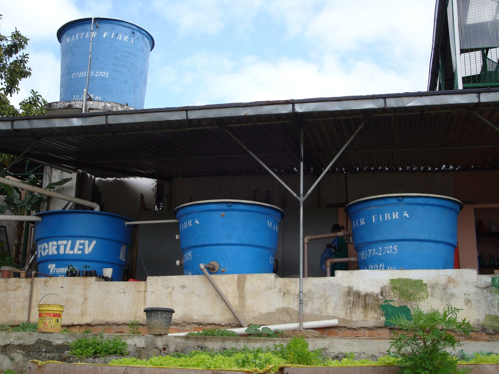 Rain Water Collection System at CEIFAR, a community project in Salvador, Bahia.